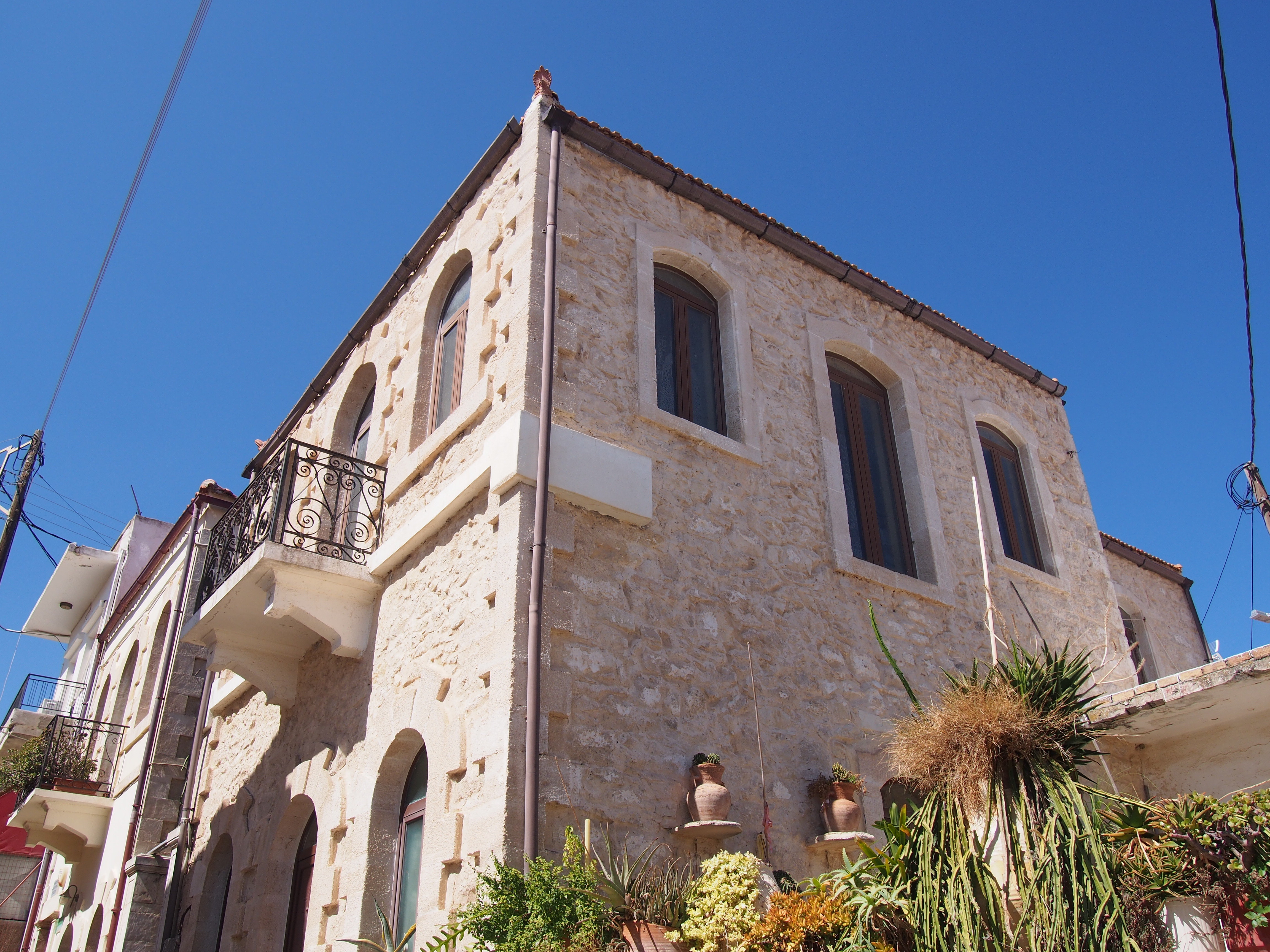 House in Tylissos, built in early 20th century. Its style is a merge of local and neoclassical architecture.